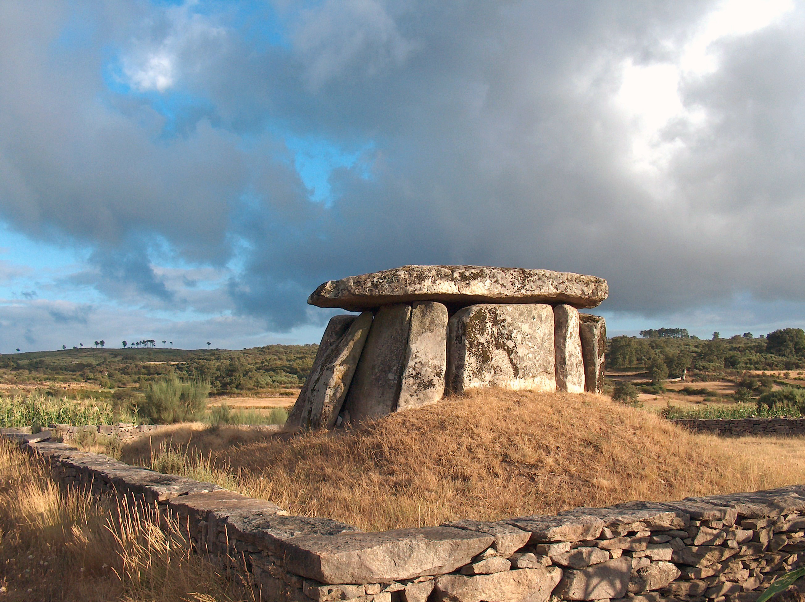 Anta de Pendilhe. Pendilhe, Vila Nova de Paiva, Viseu, Portugal.